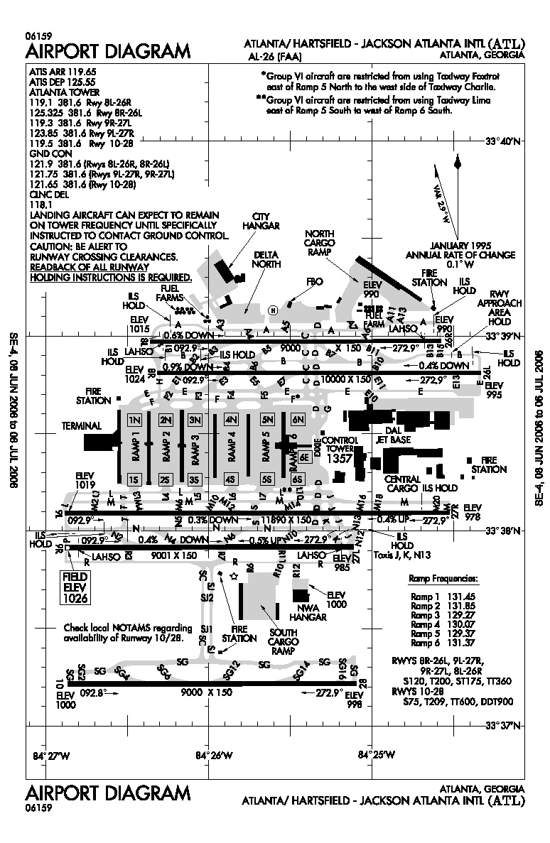 FAA diagram for Hartsfield-Jackson Atlanta International Airport (ATL) in Atlanta, Georgia, United States.Warning: this diagram contains material which is subject to change, do not use for navigation.